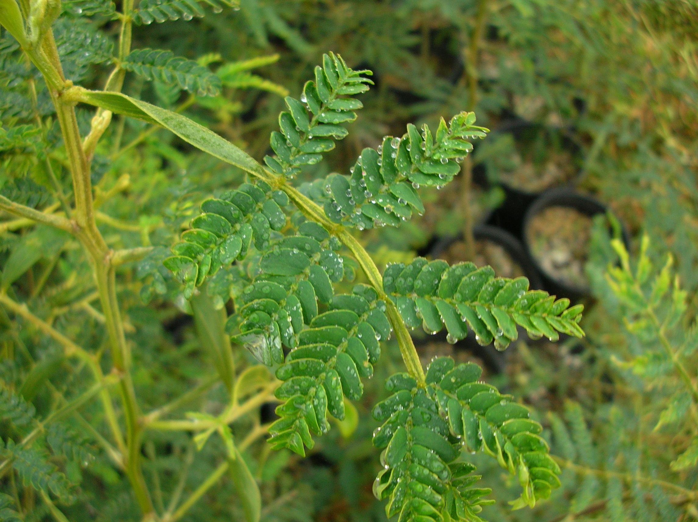 Acacia koa (young leaves). Location: Maui, Puu Makua